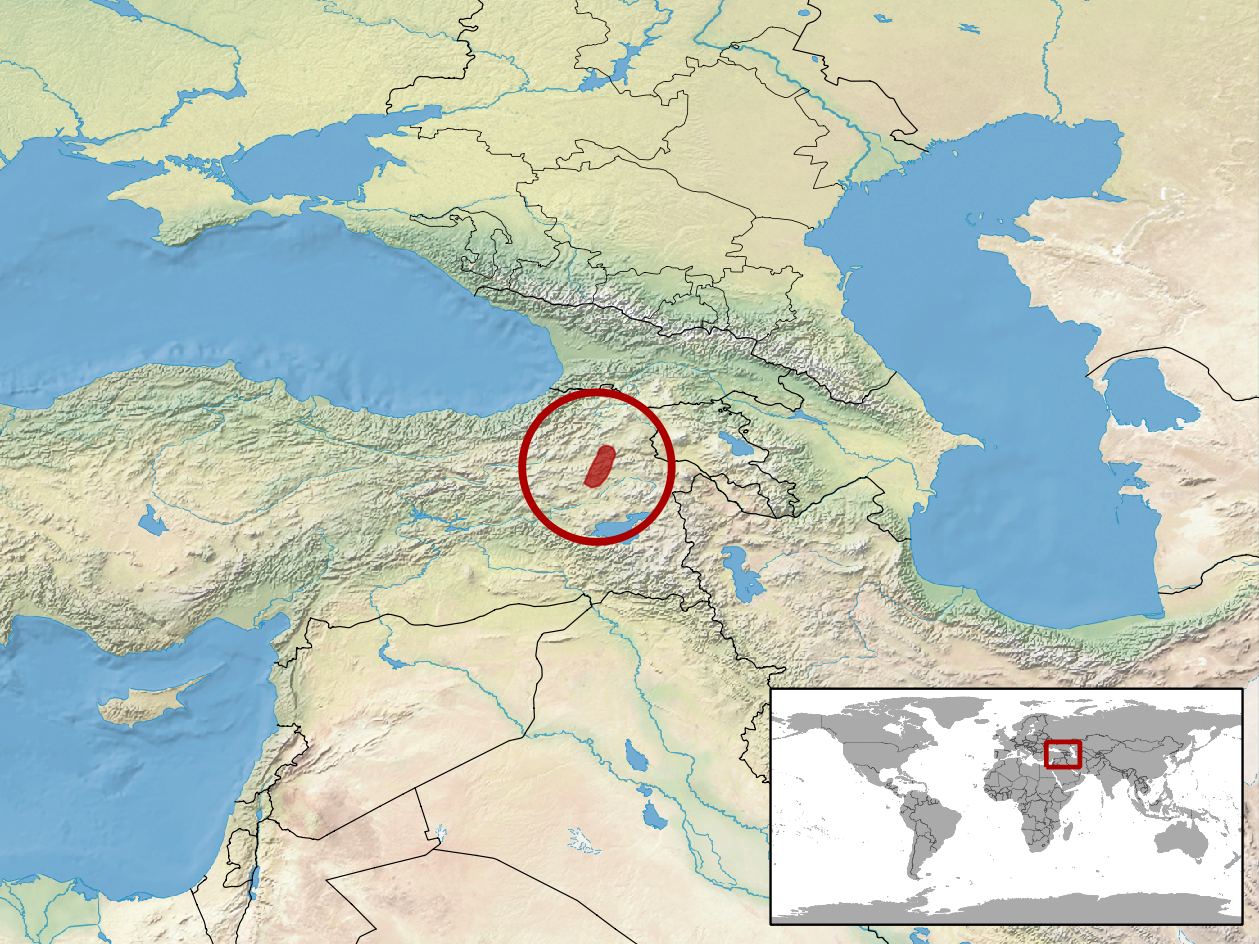 geographic distribution of Montivipera wagneri (Native: Turkey)